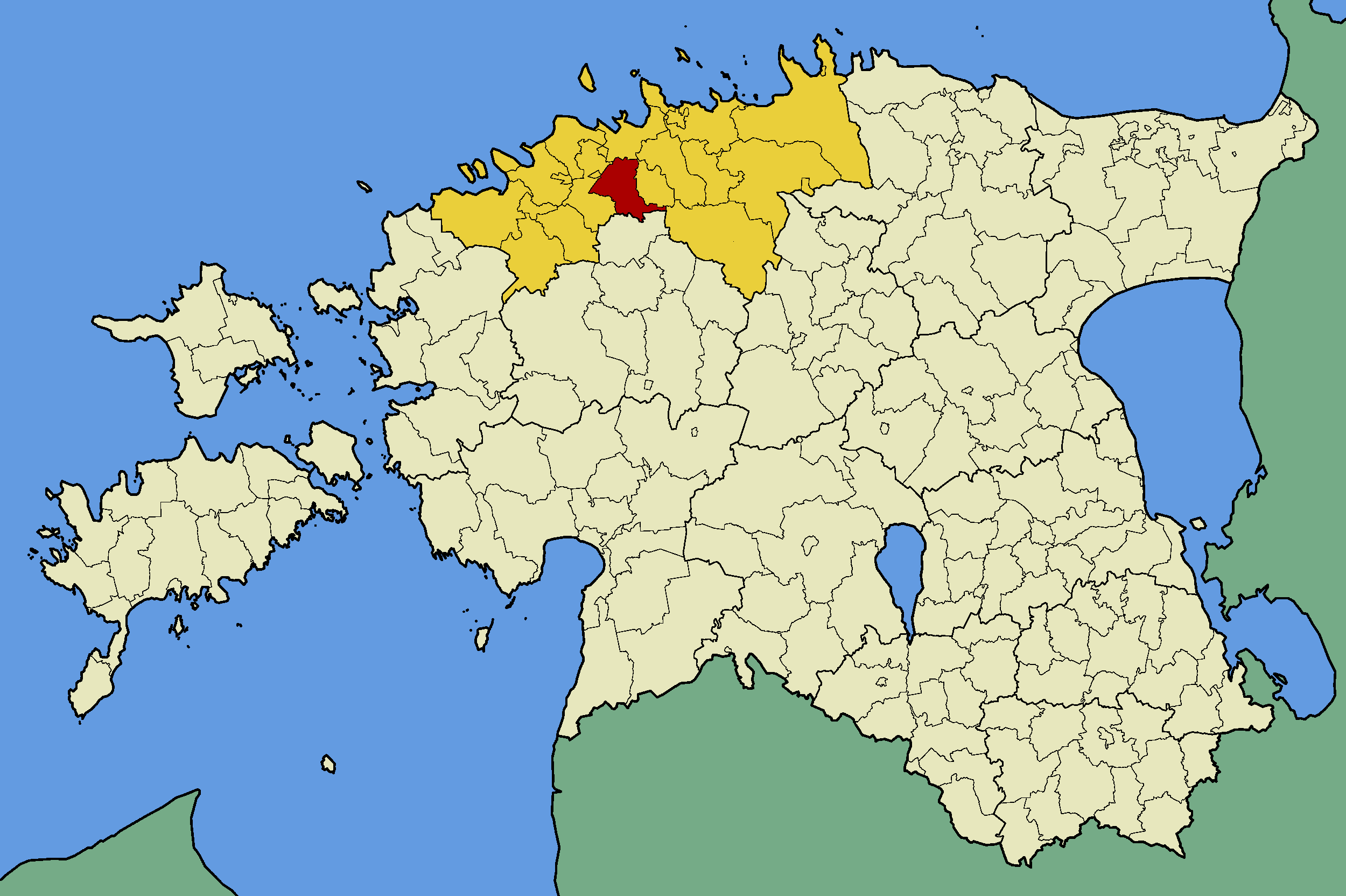 Map of Estonia with borders of municipalities (parishes). Harju county and Saku municipality (parish) emphasized.